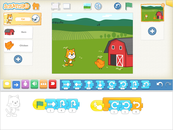 Official screenshot of the educational programming mobile application ScratchJr